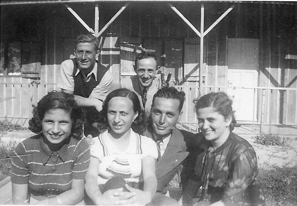 maccabi 1938 Netanya